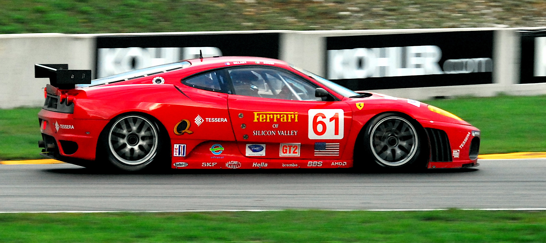 Risi Competizione's Ferrari F430 at the 2007 Generac 500